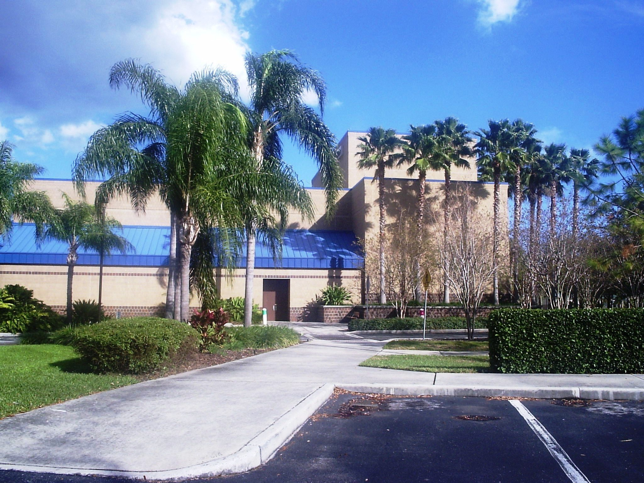 Mikereichold 00:57, 26 December 2005 (UTC) taken by me in the parking lot of the Largo, Florida Cultural Center. 2005-12-25